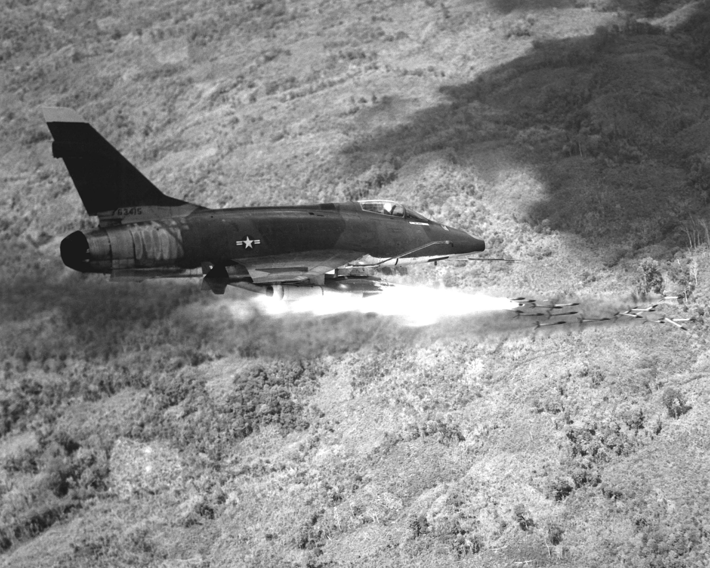 A U.S. Air Force North American F-100D-85-NH Super Sabre aircraft (s/n 56-3415) fires a salvo of 2.75-inch rockets against an enemy position in South Vietnam in 1967. This aircraft was lost with its pilot, 1Lt Clive Jeffs, after an engine failure near Nha Trang on 12 March 1971.